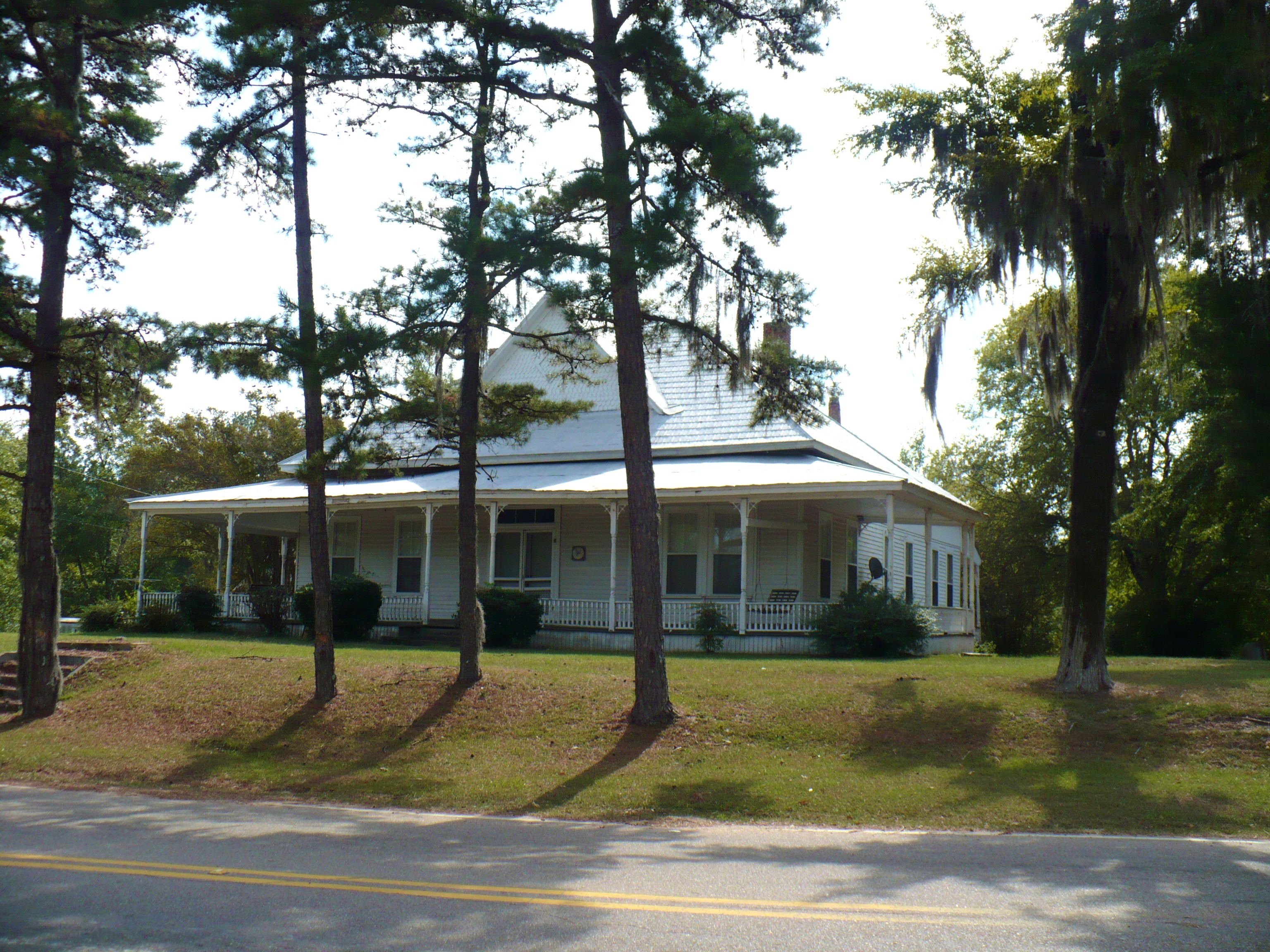 A house in Oak Hill, Wilcox County, Alabama.